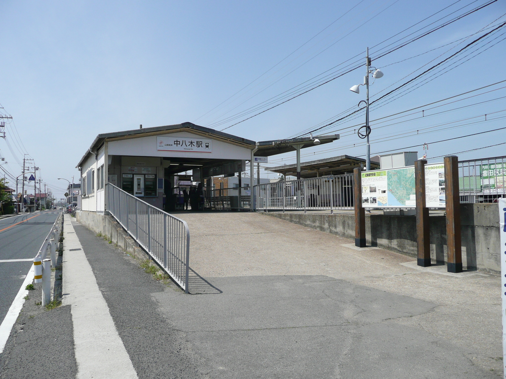 Sanyo Electric Railway Nakayagi Station